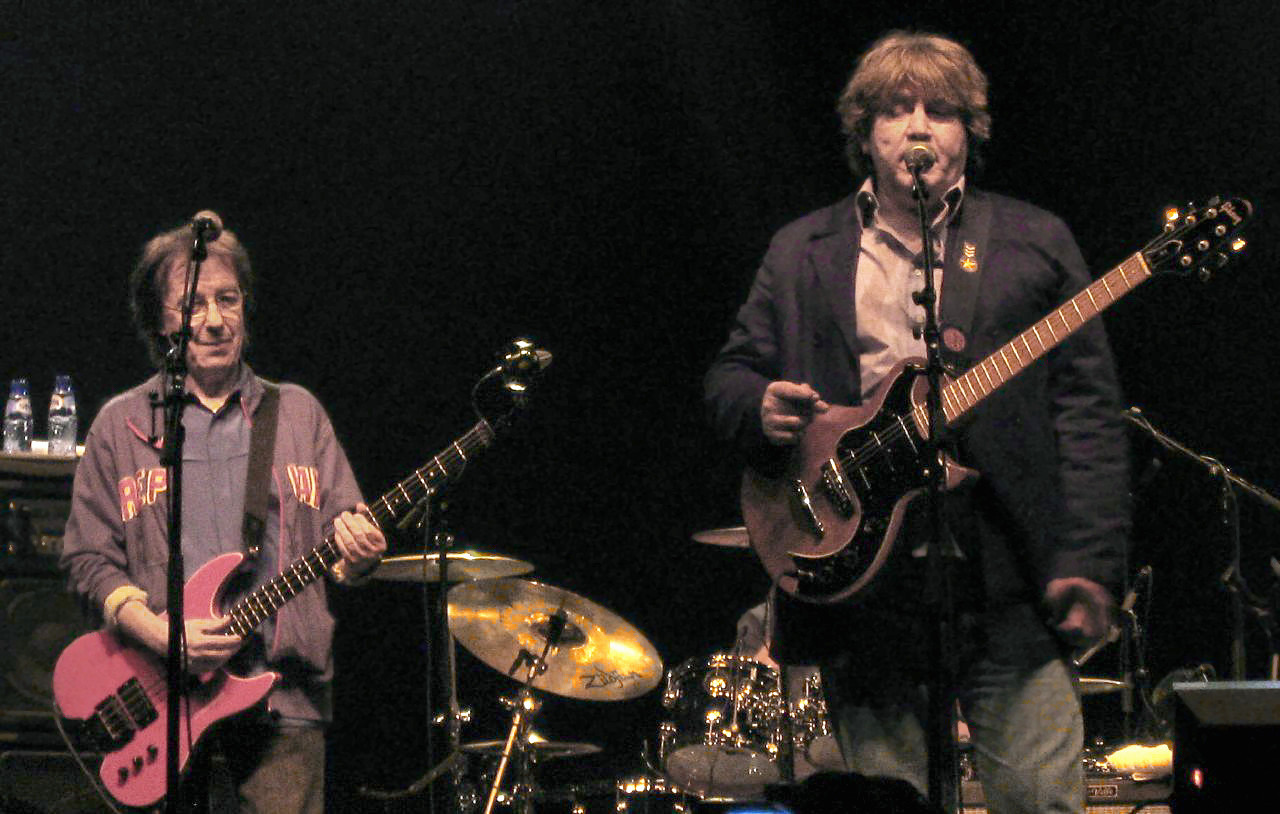 Bill Wyman & Mick Taylor, 2008